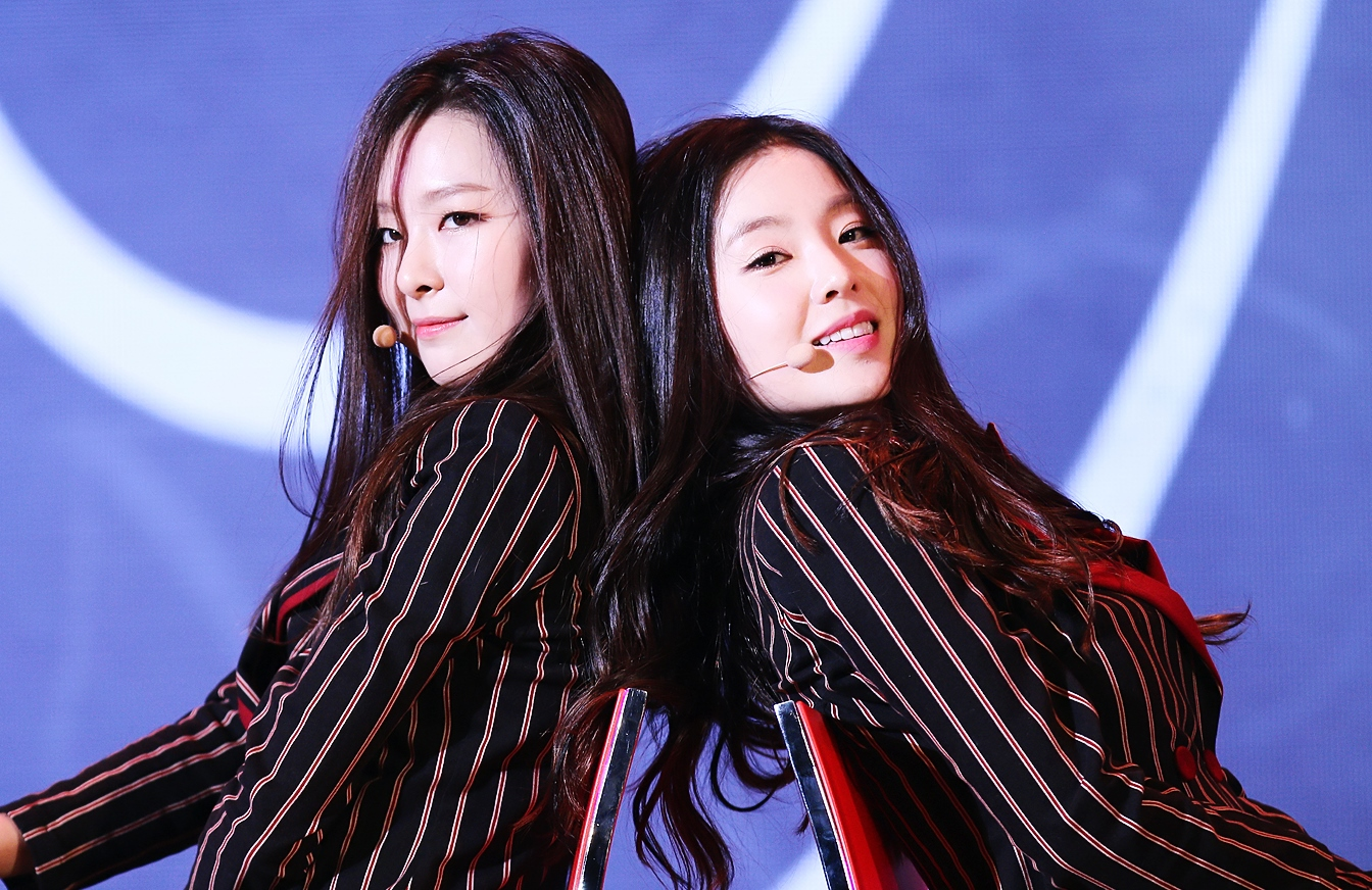 Red Velvet at Lotte World Happy concert on January 24, 2015.